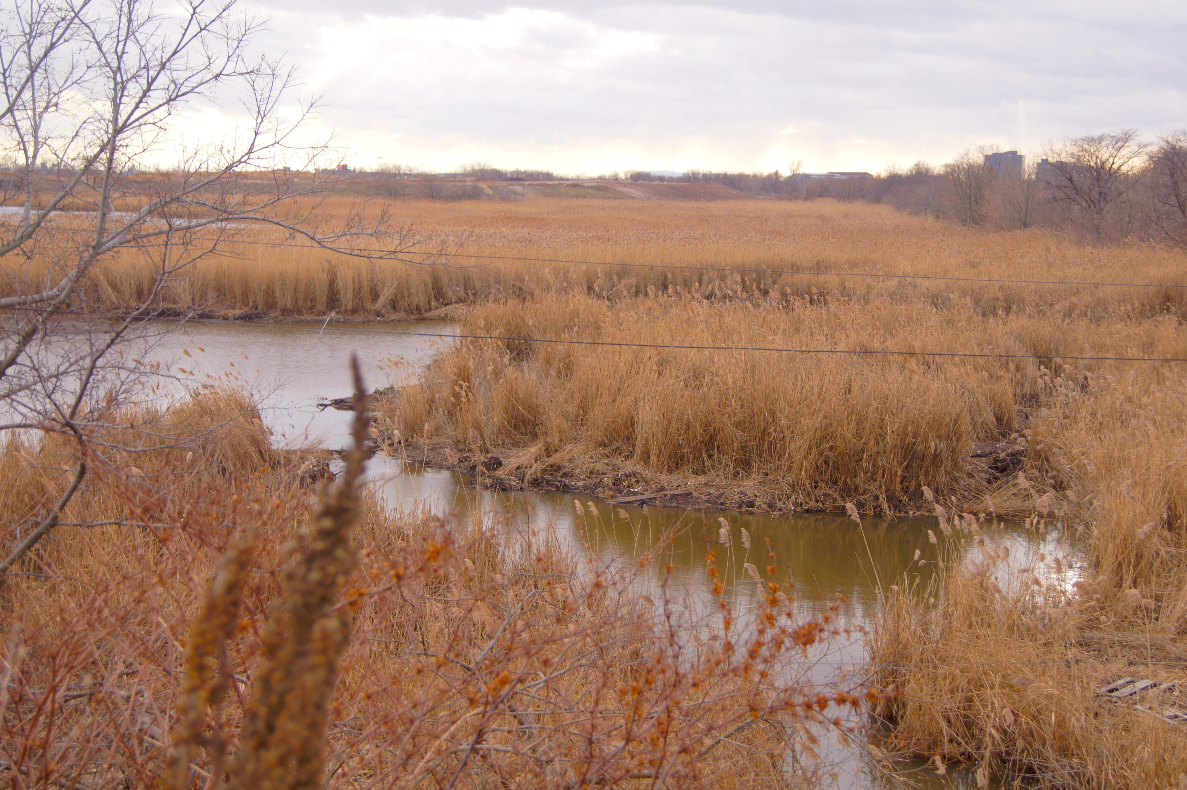 This photo shows the New Jersey Meadowlands during winter as well as a landfill and the tops of a few distant buildings.